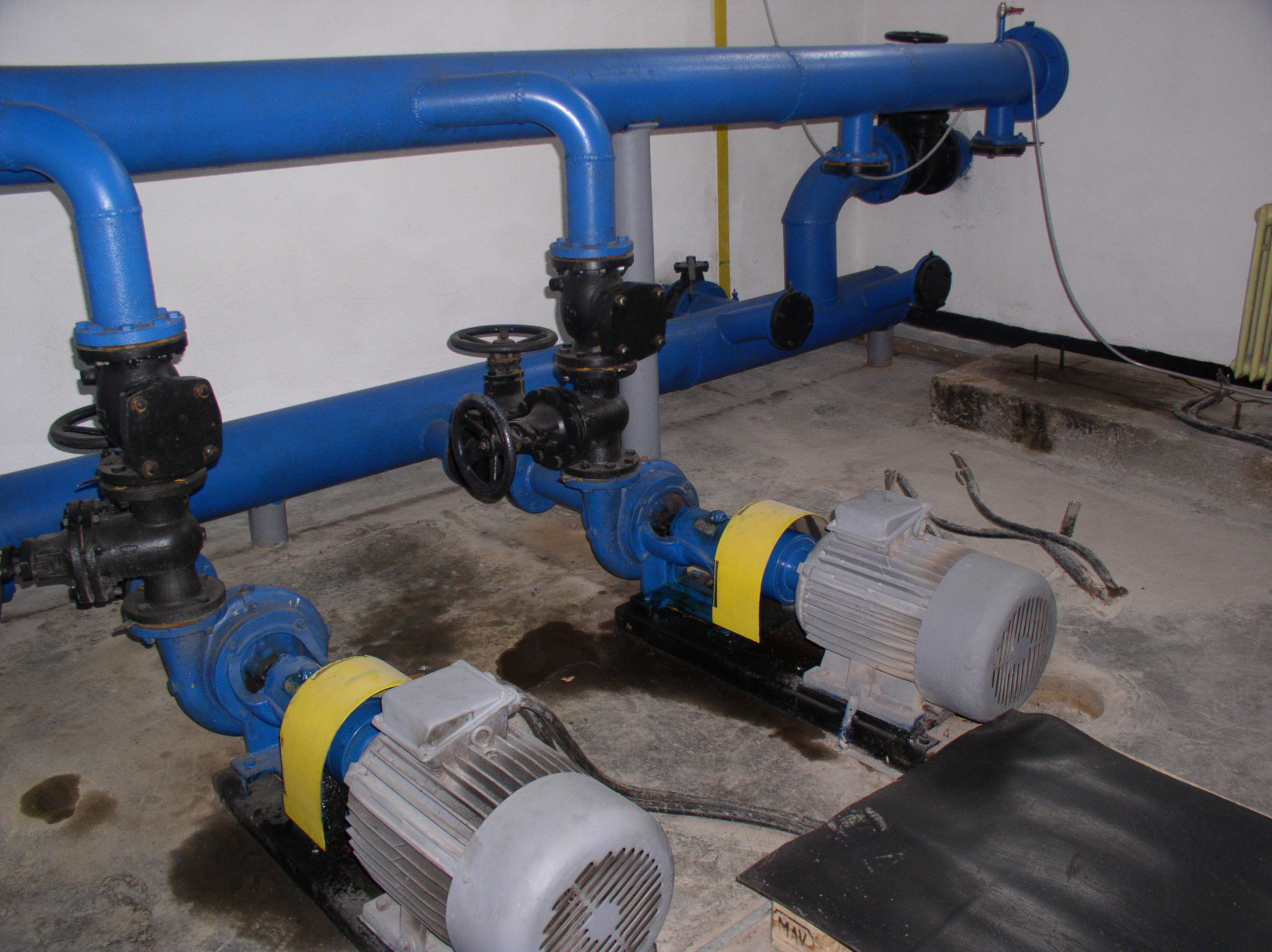 Water Pumping Station, Moneasa, judeţul Arad, România